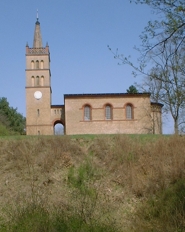 Church in Werder-Petzow (view from south) in Brandenburg, Germany